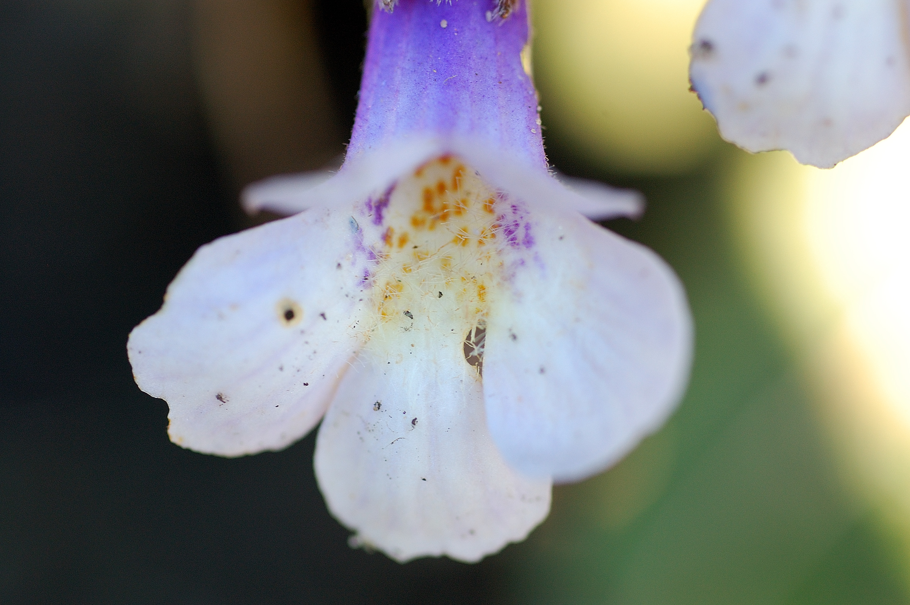 Haberlea rhodopensis (syn. 'H. ferdinandi-coburgi), closeup of flower.